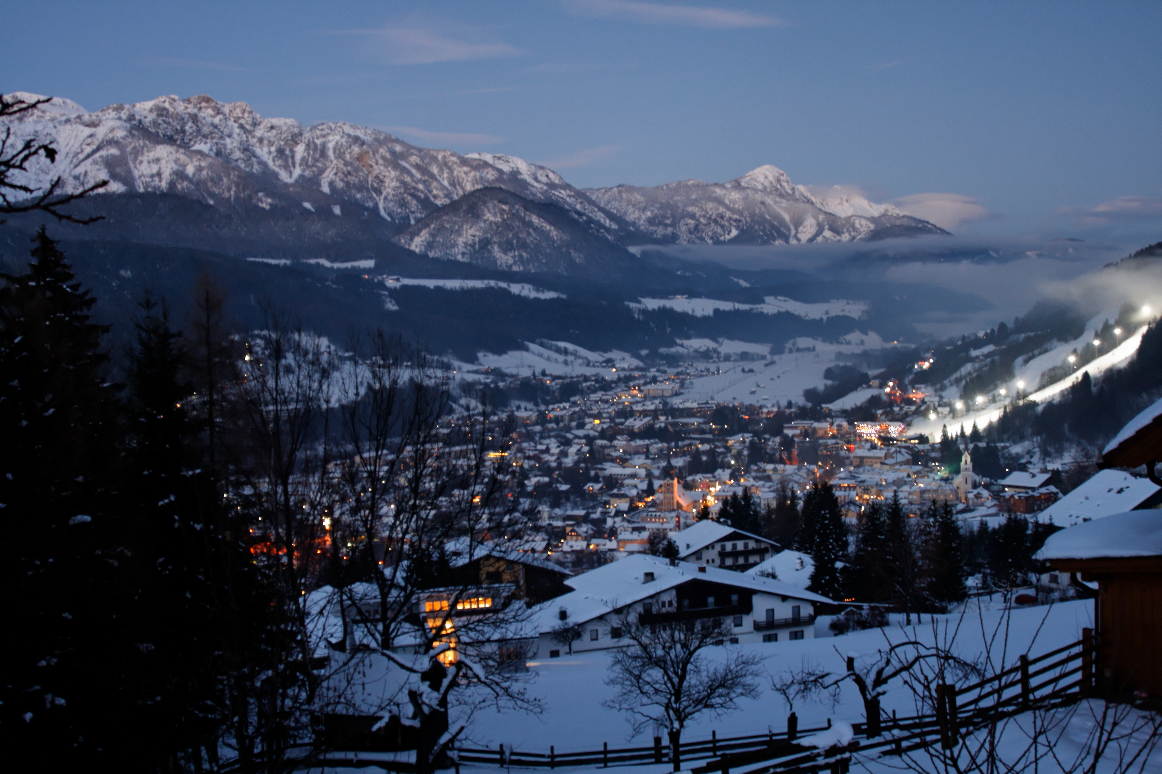 Schladming, Styria, Austria